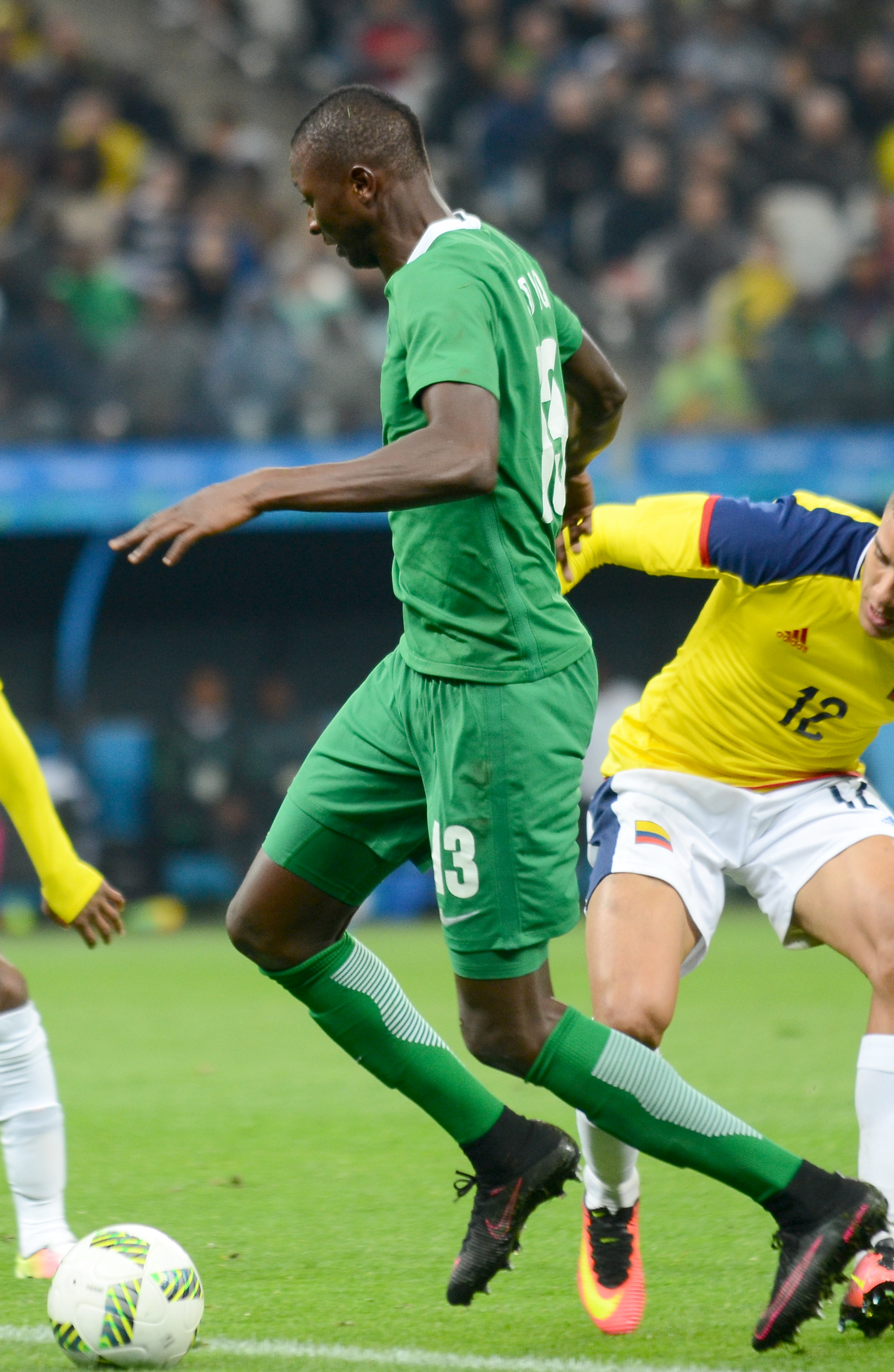 São Paulo - Colômbia vence a Nigéria por 2x0 na Arena Corinthians (Rovena Rosa/Agência Brasil)